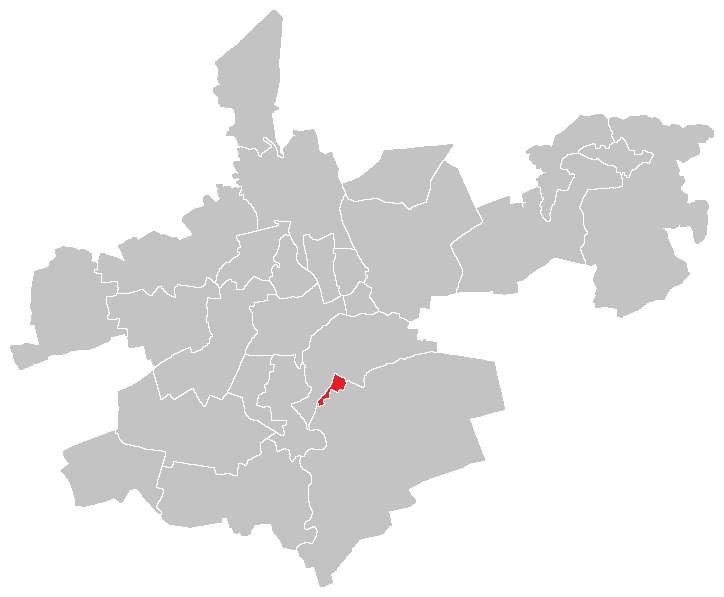 Location map of Olomouc district Nový Svět